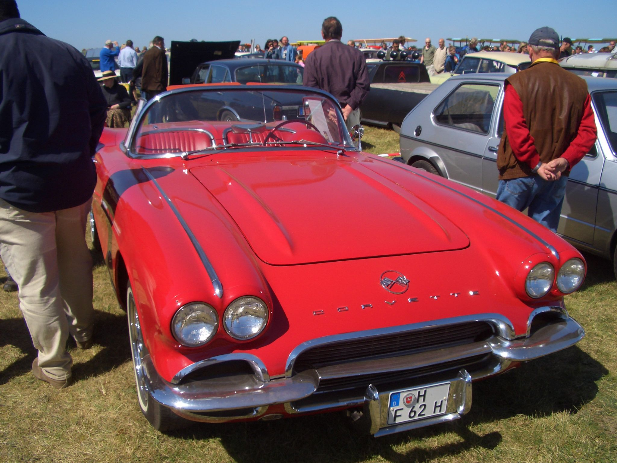 A red Corvette C1